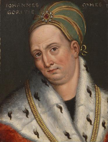 Johann Heinrich of Gorizia